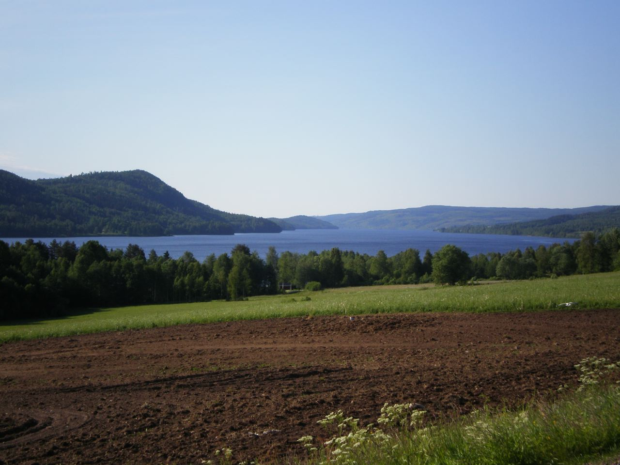 Lake Rottnen from Trötvik.